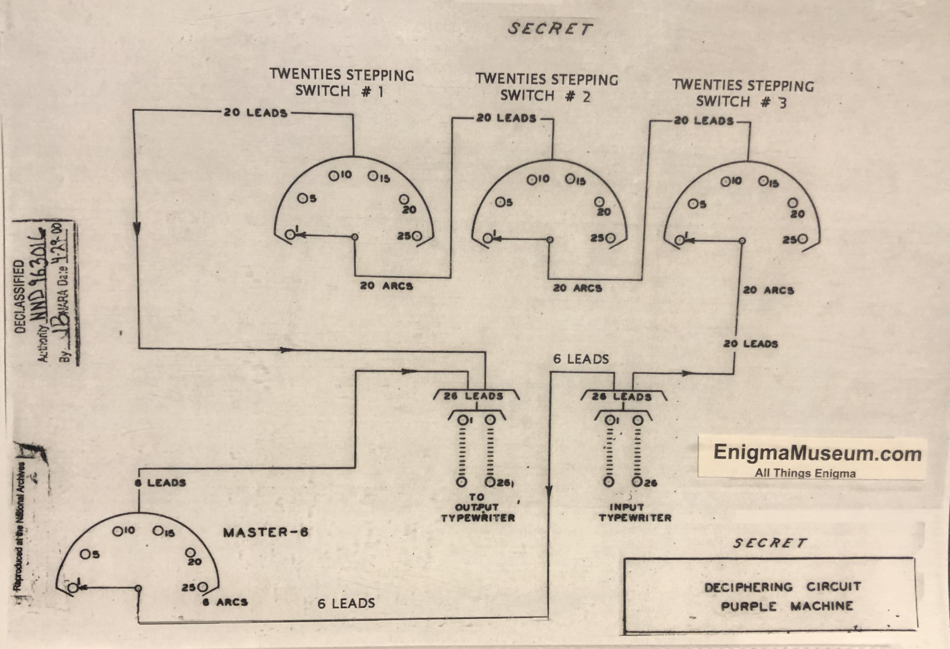 Contemporary schematic diagram of the machine built by the U.S. Army Signal Intelligence Service to decrypt the Purple cipher.